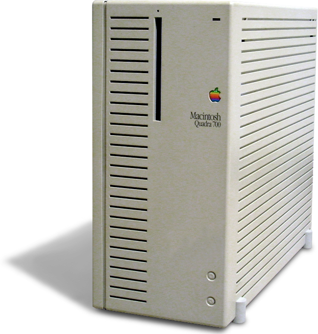 This is a picture I took of my Quadra 700. This Mac was donated to my collection by Brett Sanko.